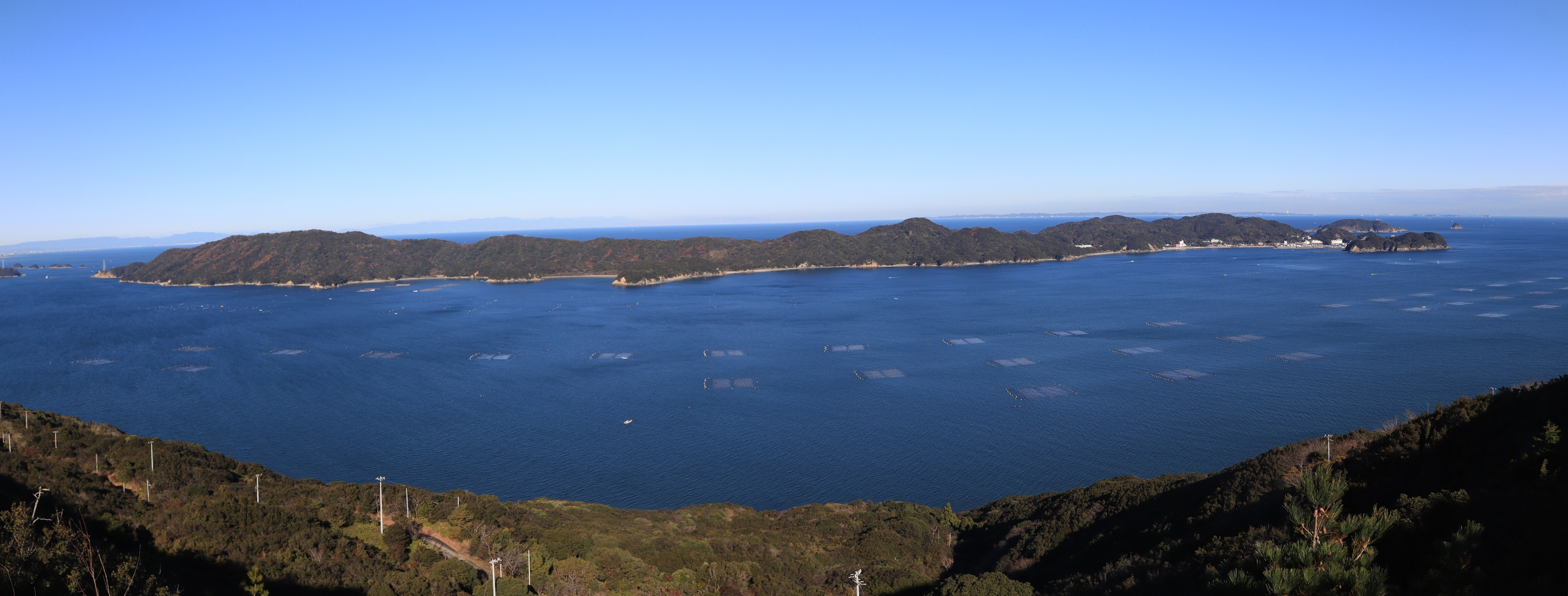 Tōshijima seen from Mount Ō in Sugashima in Toba, Mie prefecture, Japan.